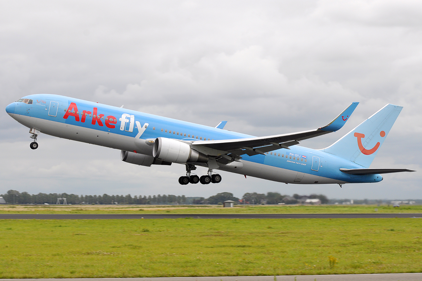 ArkeFly Boeing 767-300 taking off from Amsterdam-Schiphol airport